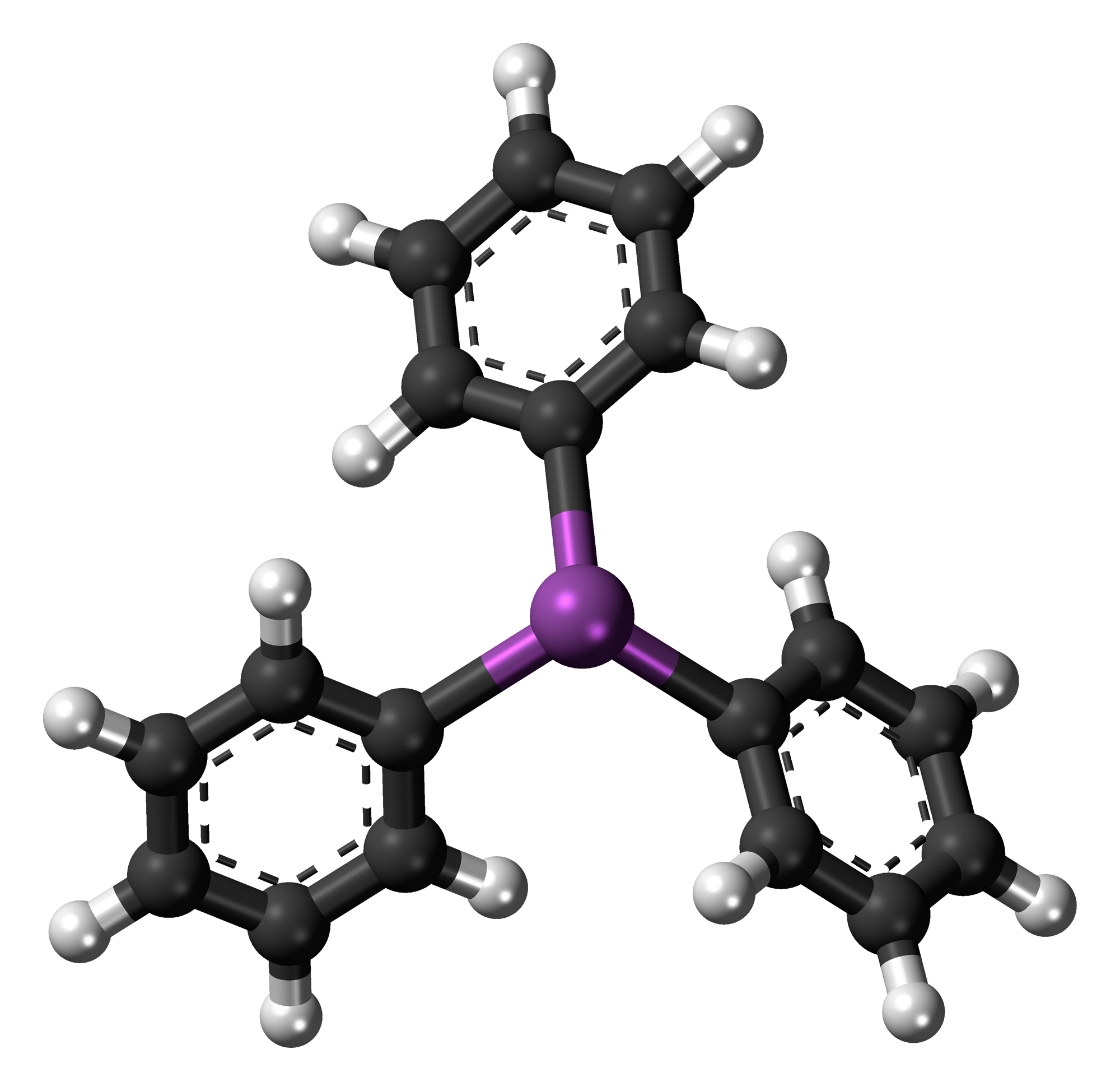 Ball-and-stick model of the triphenylstibine molecule, an organic antimony compound. Colour code: Carbon, C: black Hydrogen, H: white Antimony, Sb: lilac